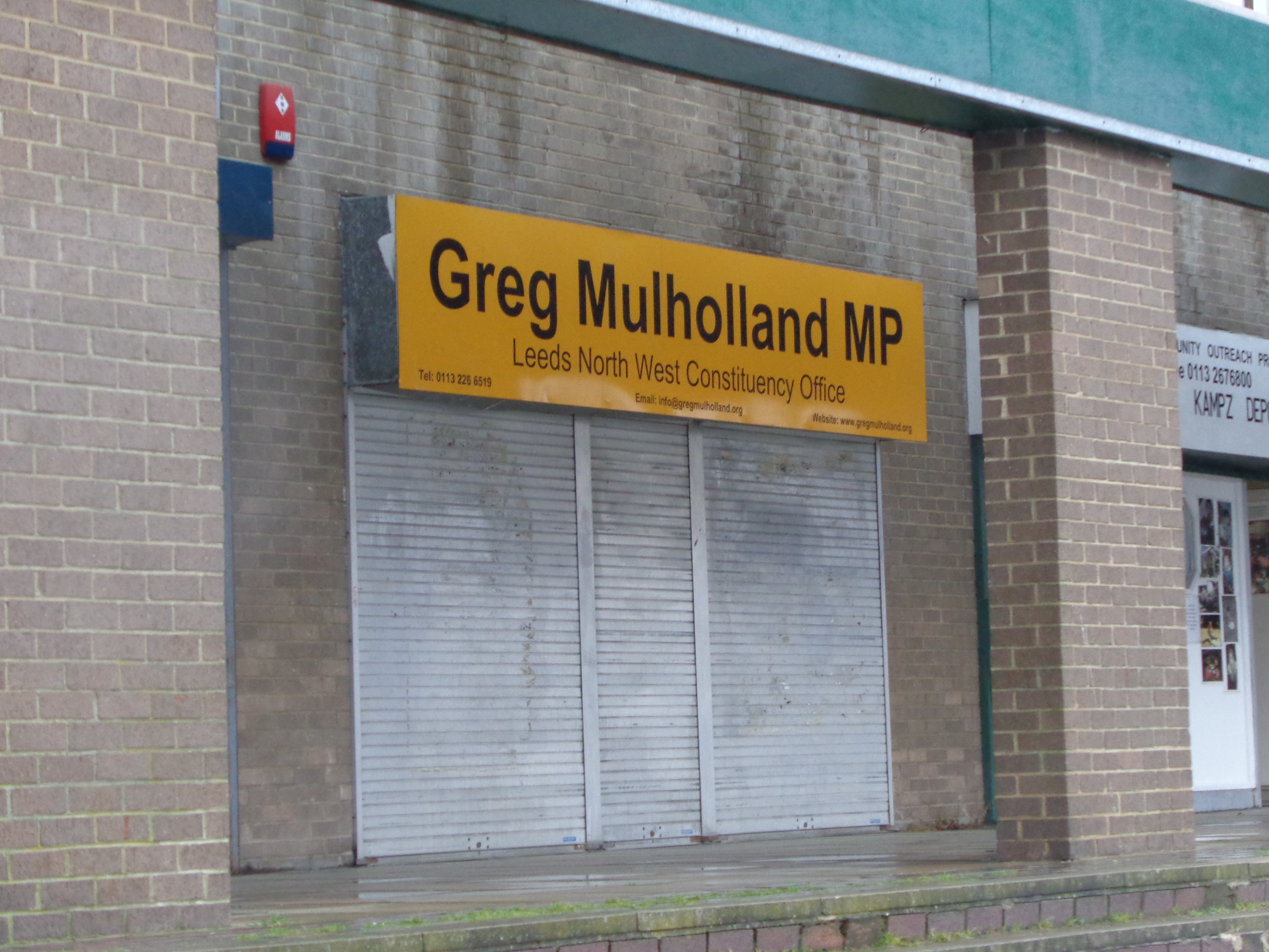 Greg Mulholland MP (Liberal Democrat), Leeds North West constituency surgery, Holt Park District Centre, Holt Park, Leeds, West Yorkshire. Taken on the afternoon of Monday the 20th of December 2013.